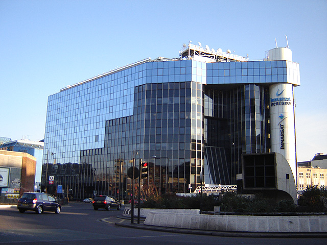 Inmarsat Global HQ, Old Street roundabout, Shoreditch, London. 28 January 2006. Photographer: Fin Fahey.